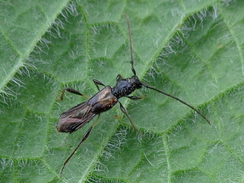 Molorchus umbellatarum. Found in Bērzi village near Bauska city, Latvia